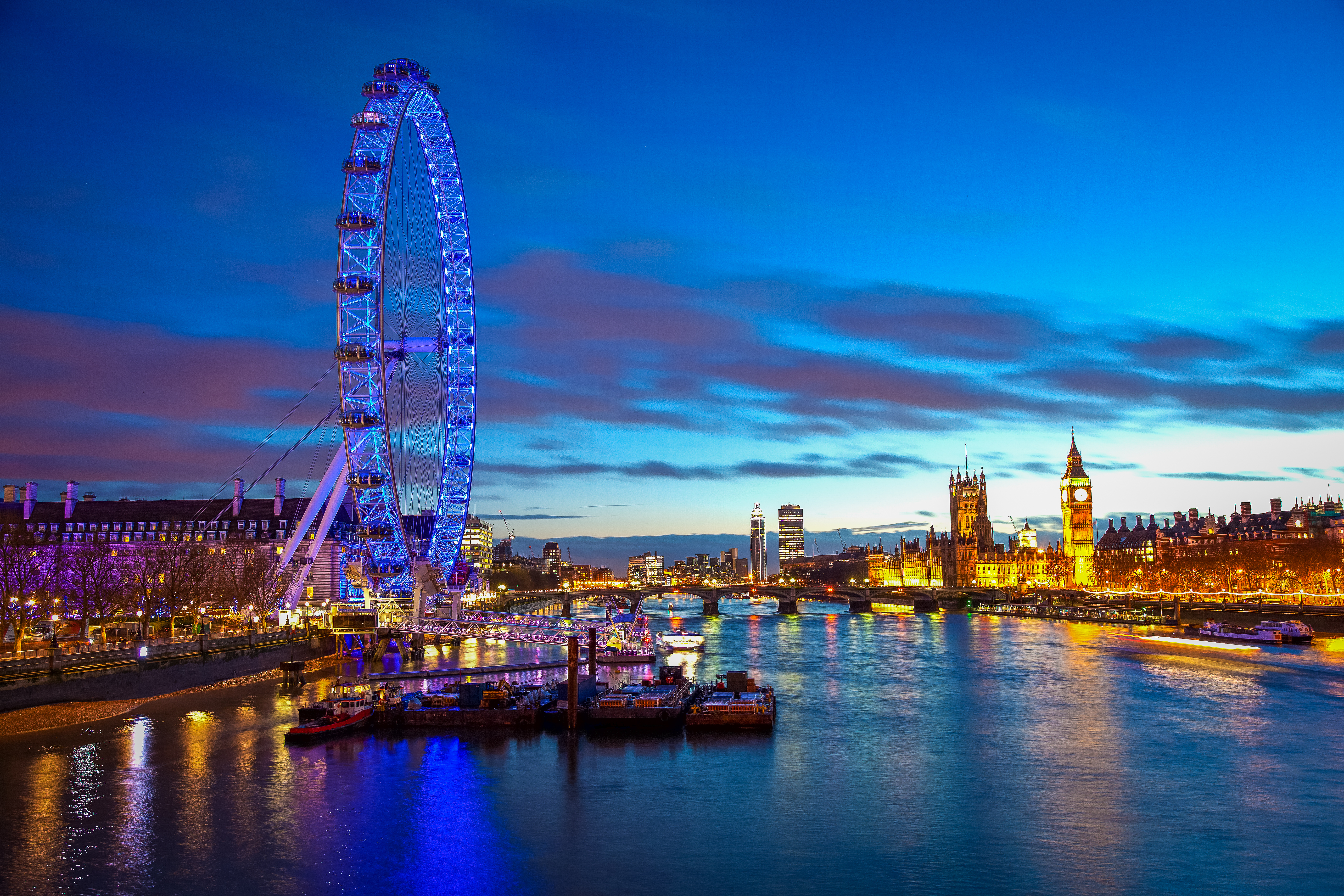 London Eye